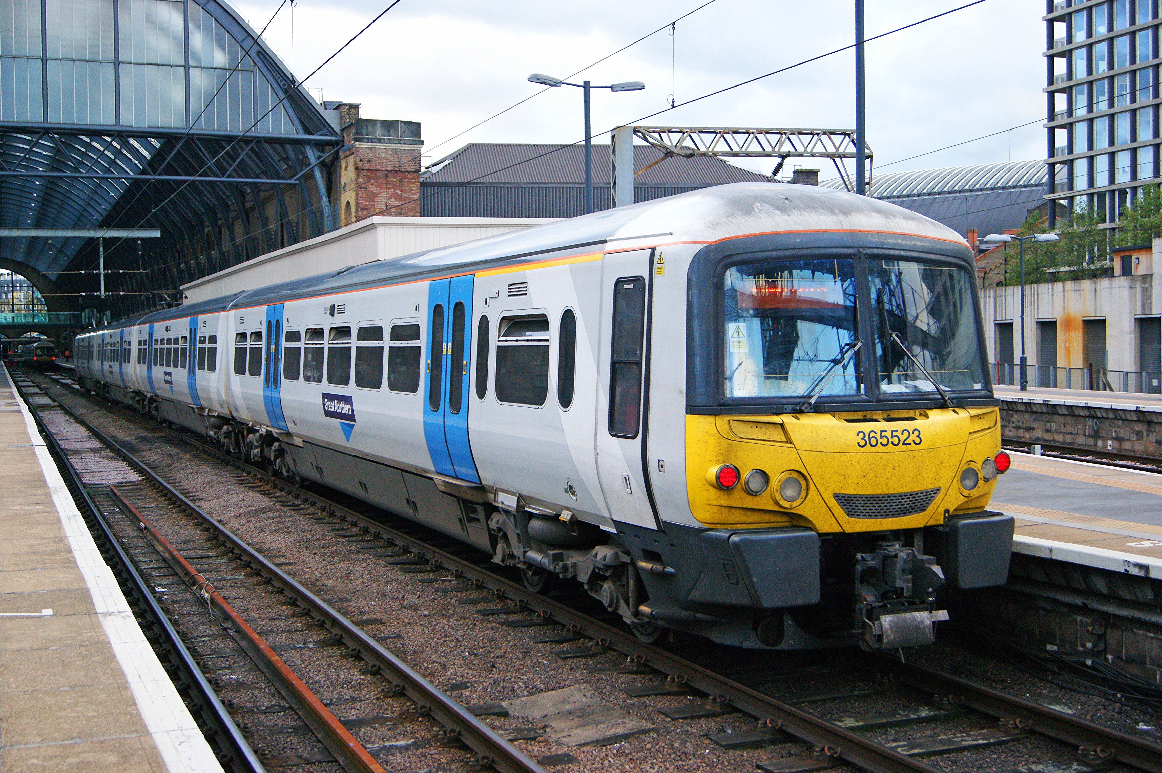 ABB (York) Class 365 "Networker Express" 25k v ac overhead 4-car emu No.365 523 of Great Northern in GN branded New Thameslink grey & white livery at King's Cross from Peterborough, 12 September 2015.